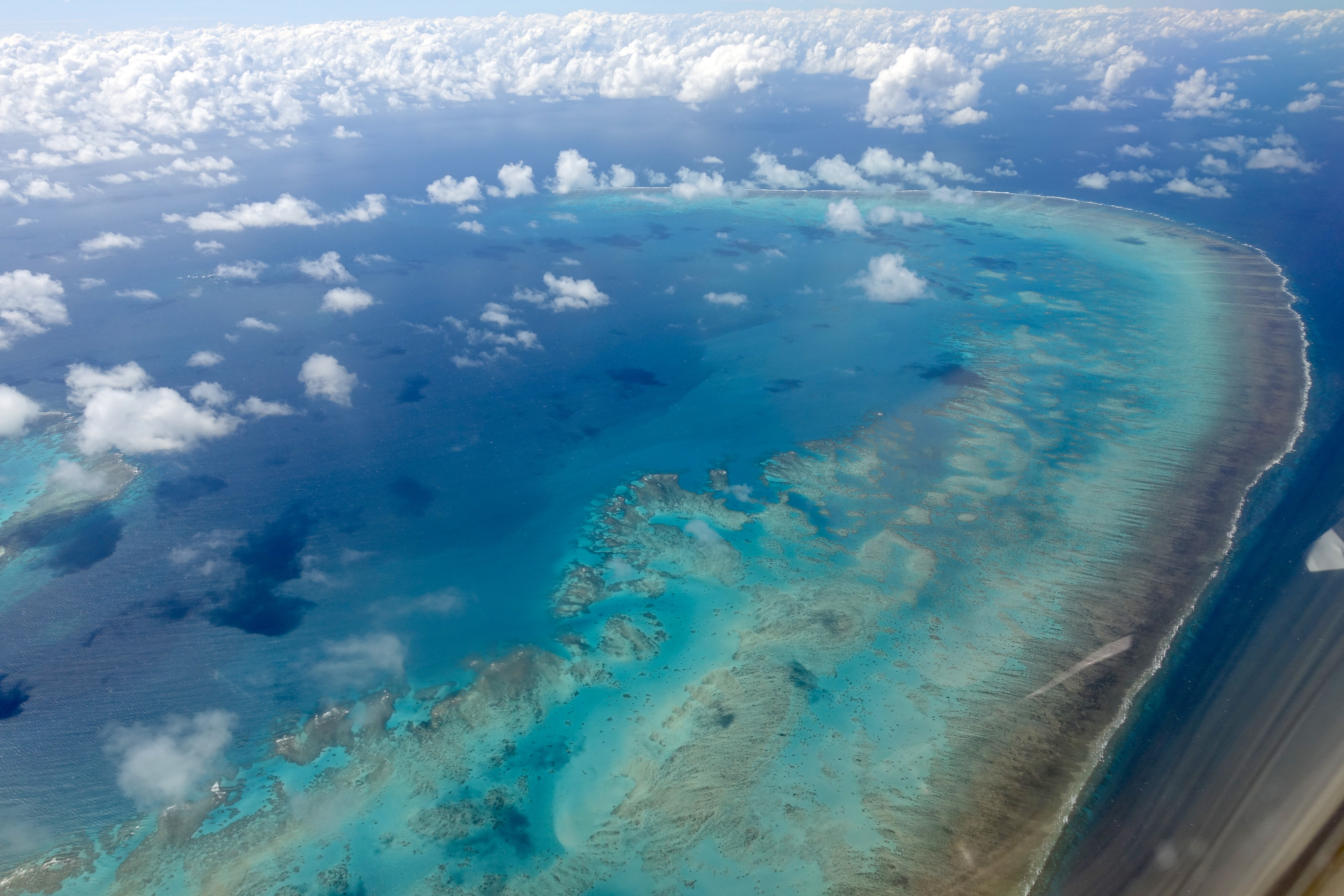 Aerial view of Arlington Reef, Queensland, Australia. The reef is part of the Great Barrier Reef and is located in the Coral Sea. The view is facing east.